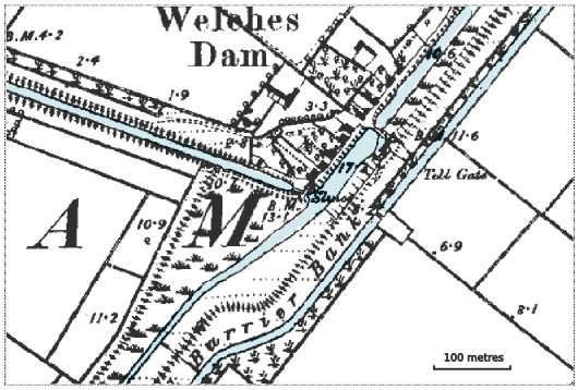 Detail from 1892 Ordnance Survey 1:10560 map "Cambridgeshire 021/SE" to show Welches Dam on the Old Bedford River.